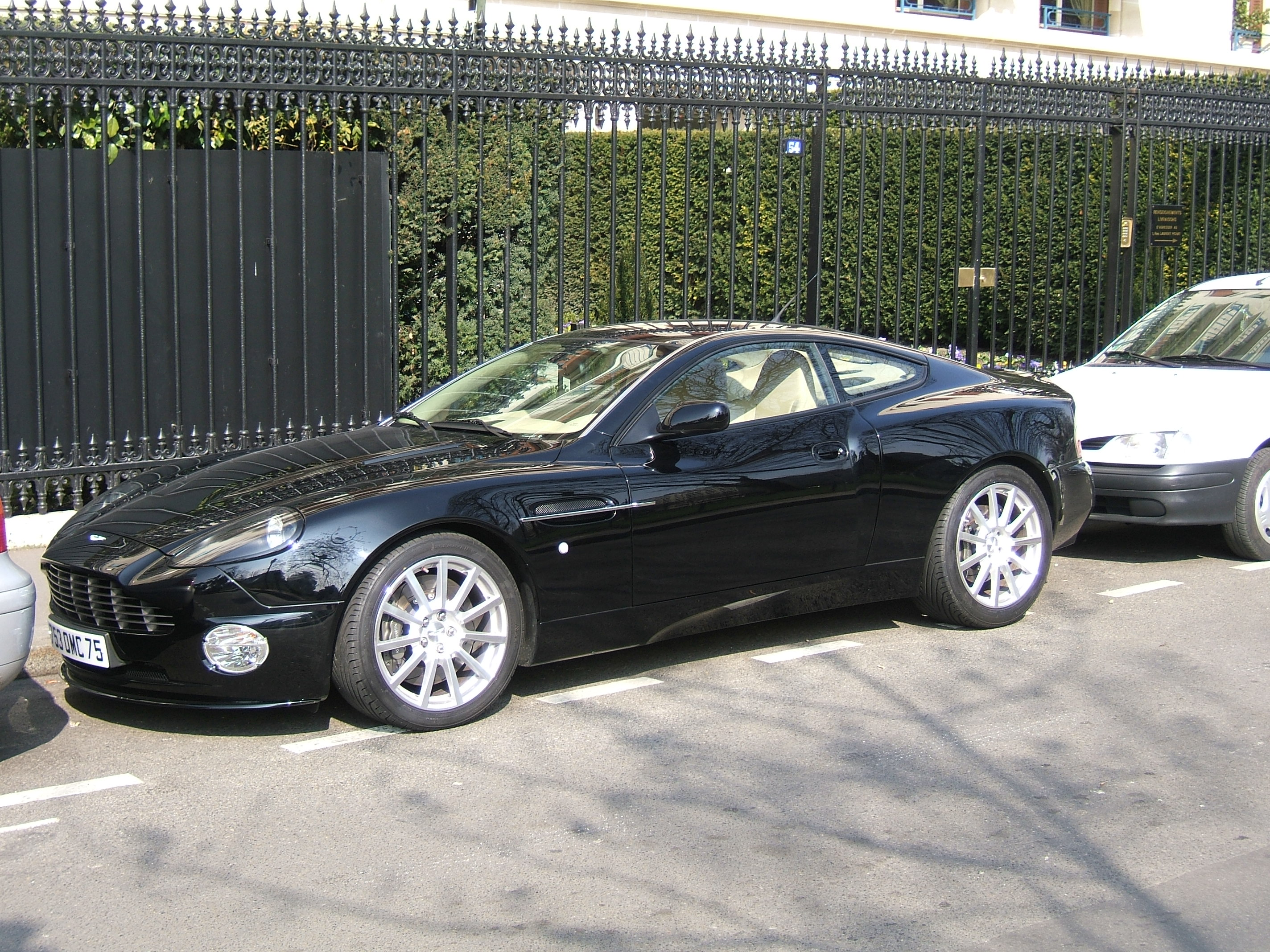 Black Aston Martin Vanquish S.